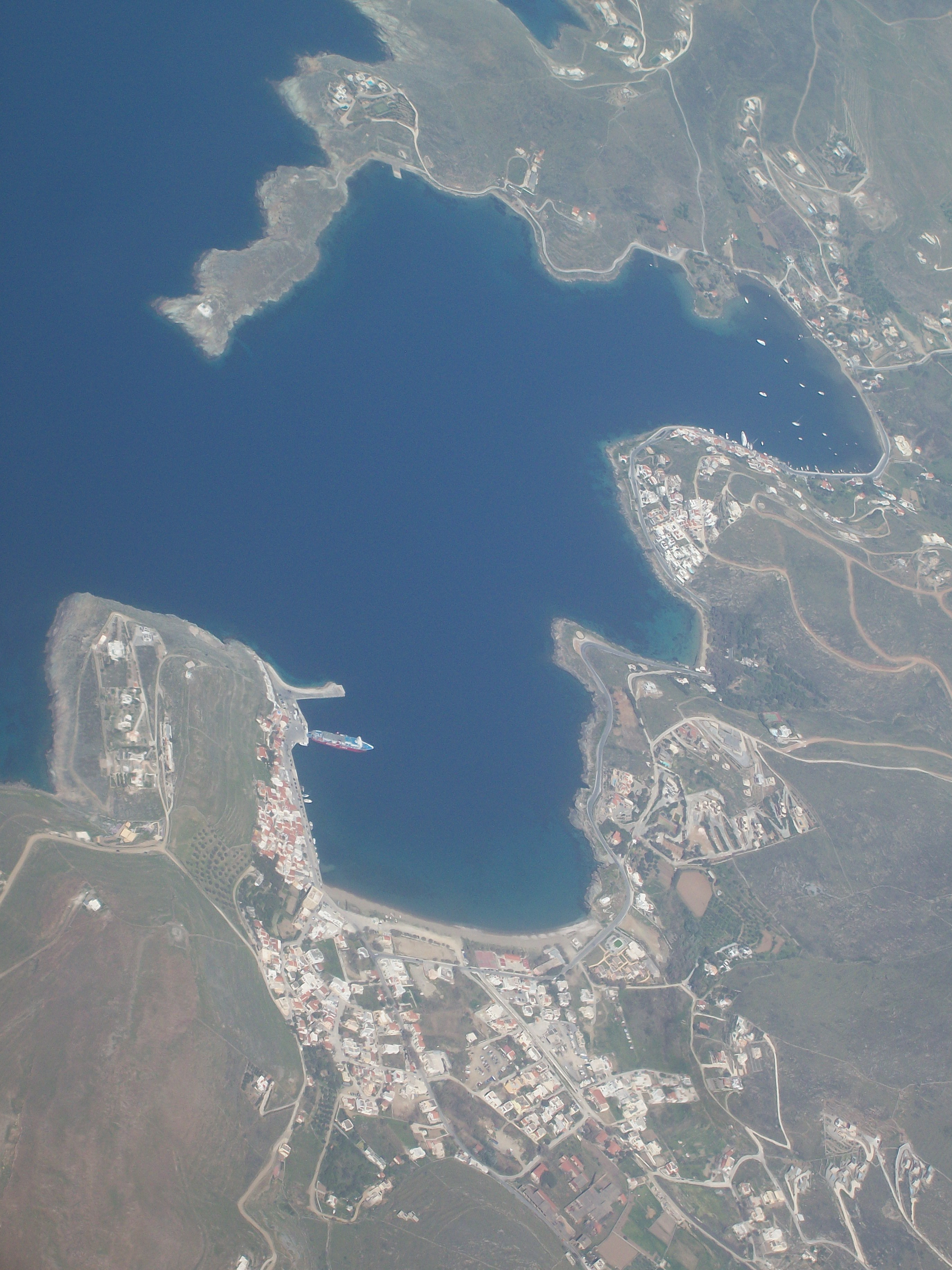 Air view of Corissia port, at the greek island Kea.